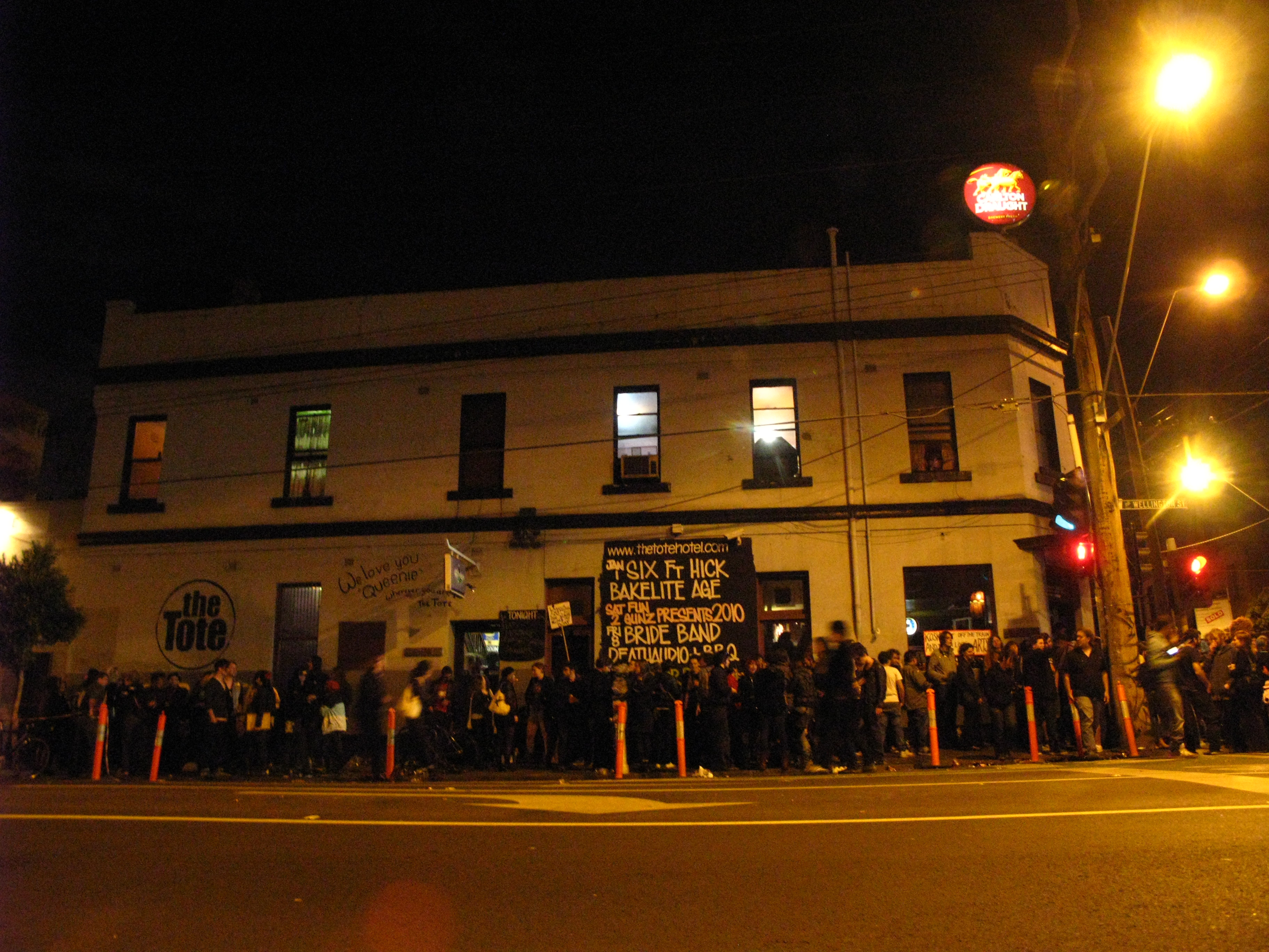 The queue to get into the Tote Hotel on it's closing night, down Wellington Street, Collingwood, Melbourne, Victoria, Australia. Photo taken by Nick carson, January 2010.